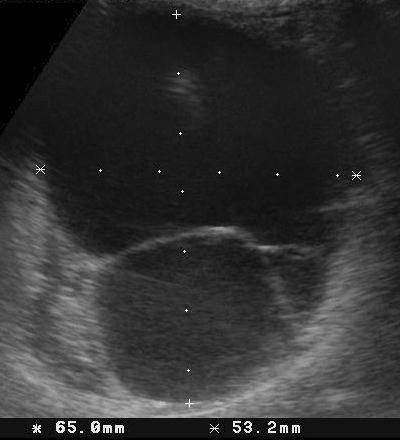 Ultrasonographic image of a ovarial cyst in a guinea pig.